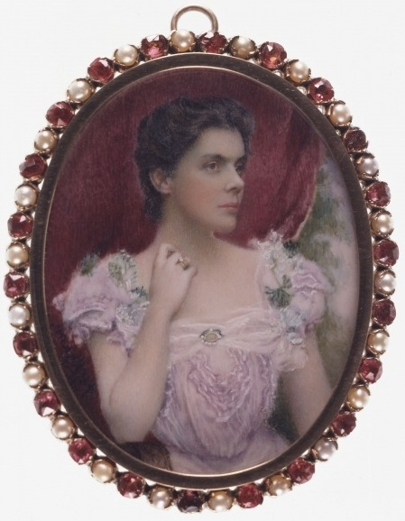 Huybertje Lansing Pruyn Hamlin. 1900 miniature, watercolor on ivory in gold frame with garnets and pearls. Charlotte Burt Kirkham (1856-1933), artist. Gift of Huybertje Lansing Pruyn Hamlin to the Albany Institute of History and Art.